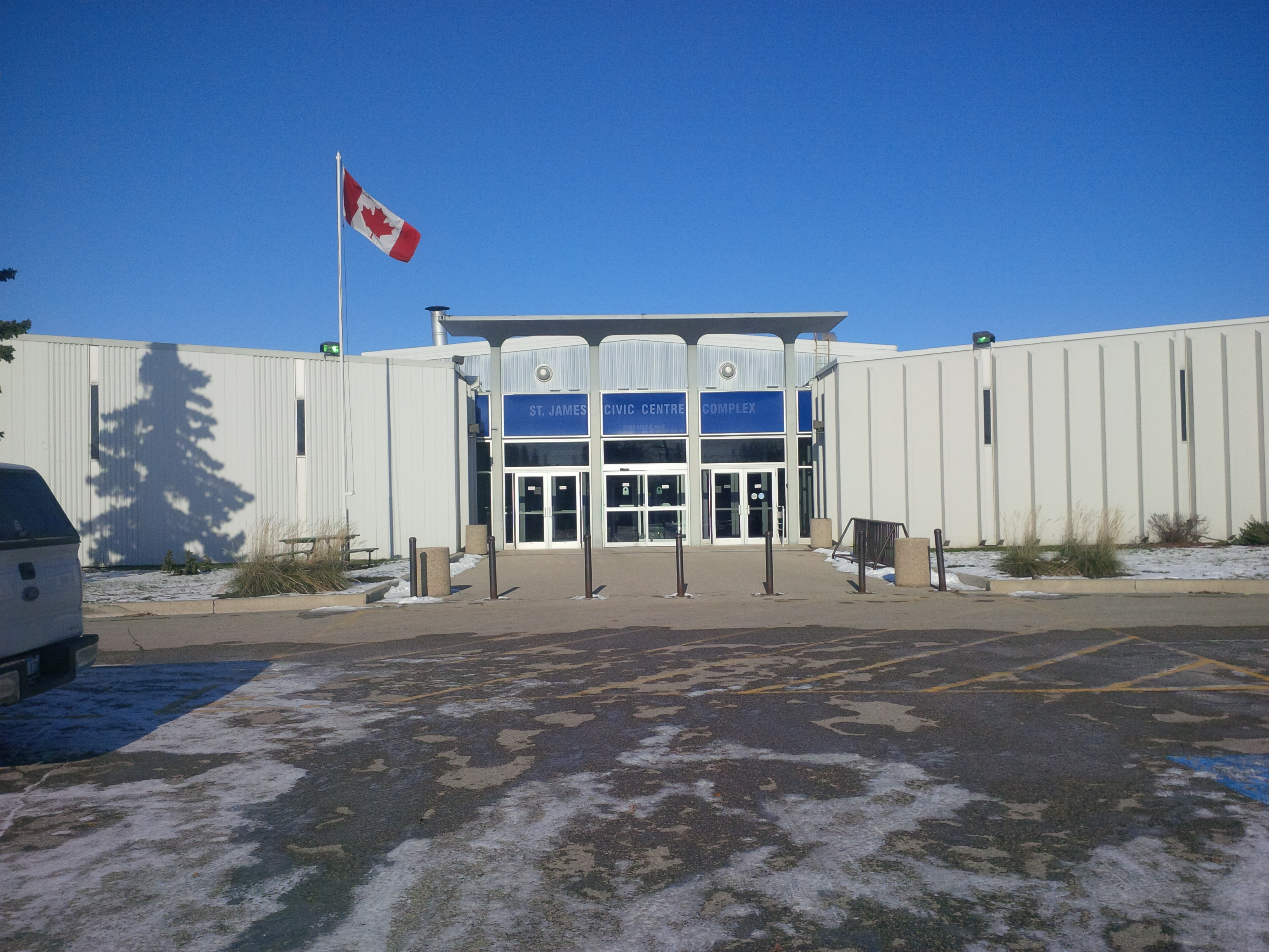 St. James Civic Centre Complex (2055 Ness Ave.), completed as a Centennial project in 1966-67.